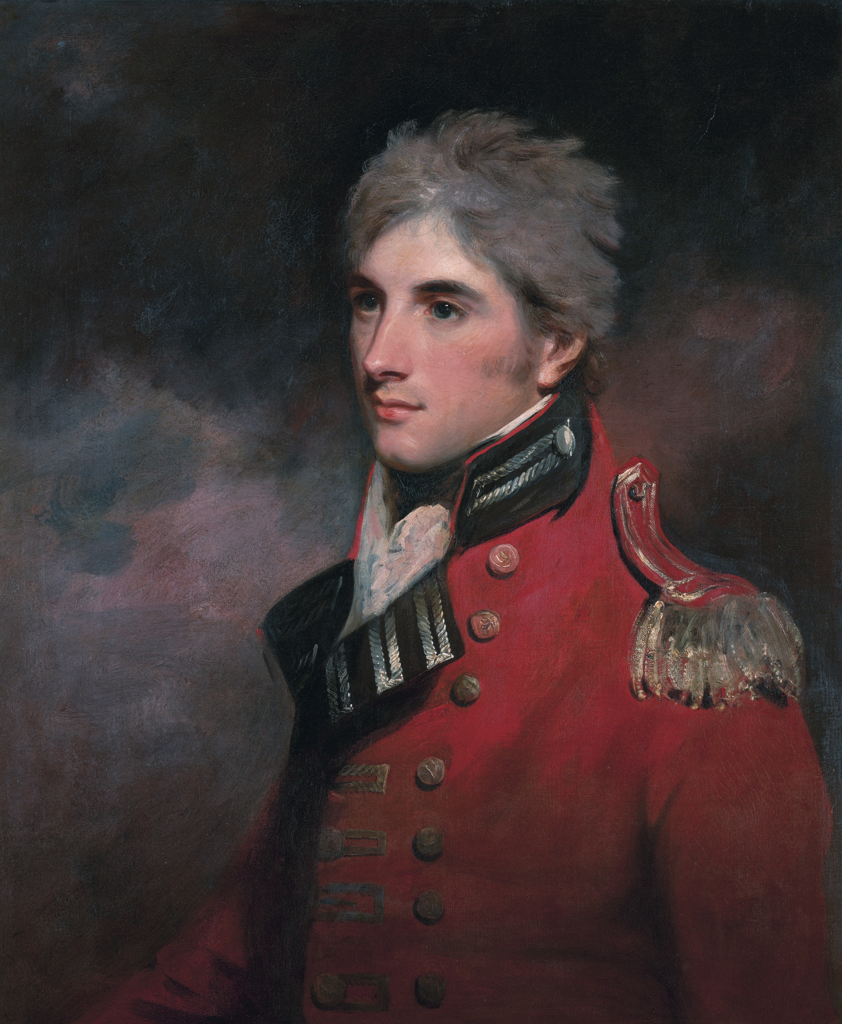 General George Murray (1772-1846) oil on canvas 77.7 x 65 cm